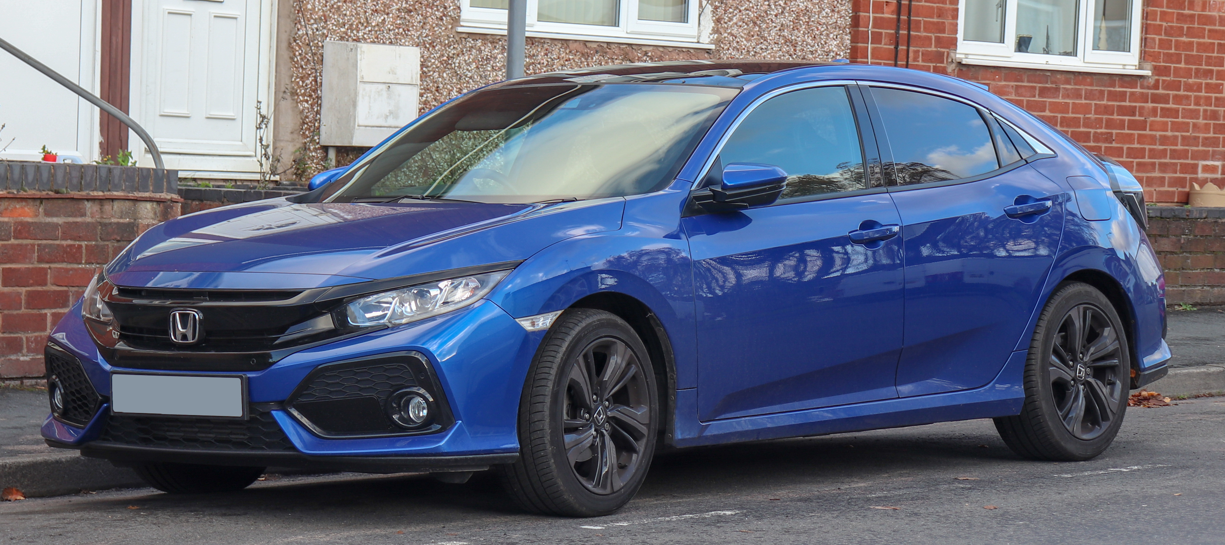 2017 Honda Civic EX VTEC CVT 1.0 Front Taken in Warwick